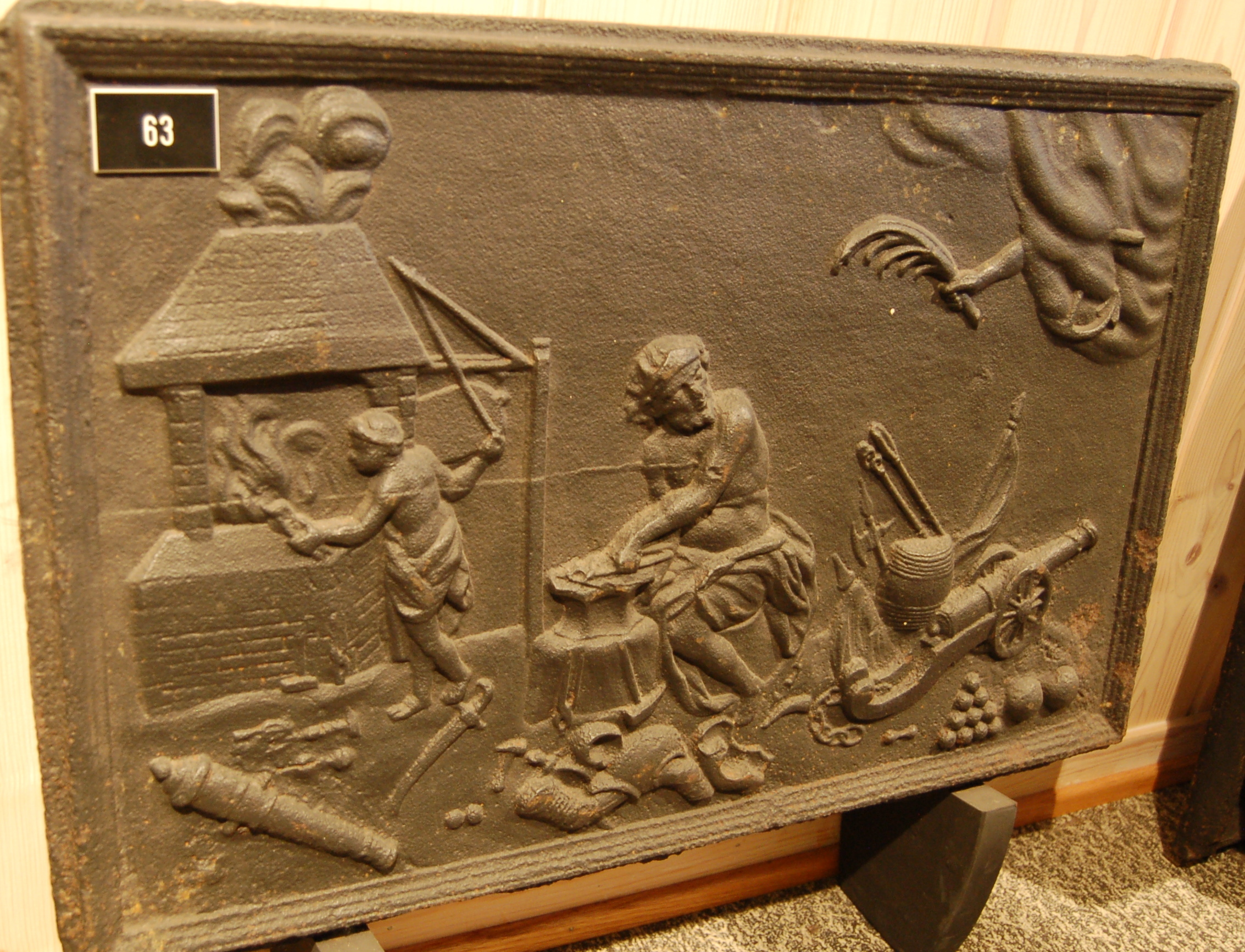 Iron stove plate, Fritzøe Jernverk